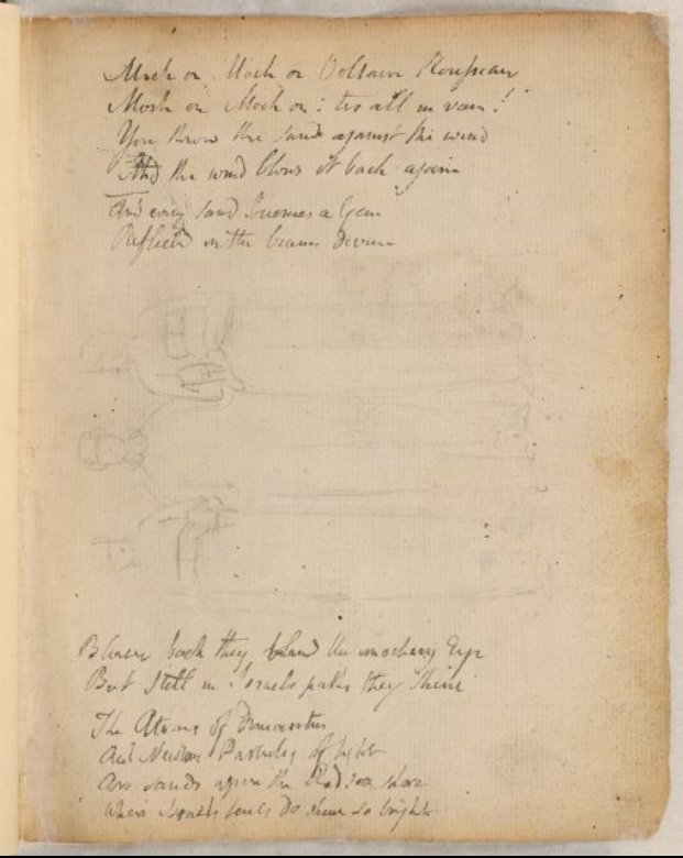 Blake manuscript - Notebook - page 007